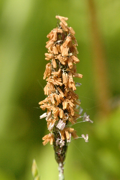 Picture taken in Commanster, Belgian High Ardennes . Species: Alopecurus geniculatus